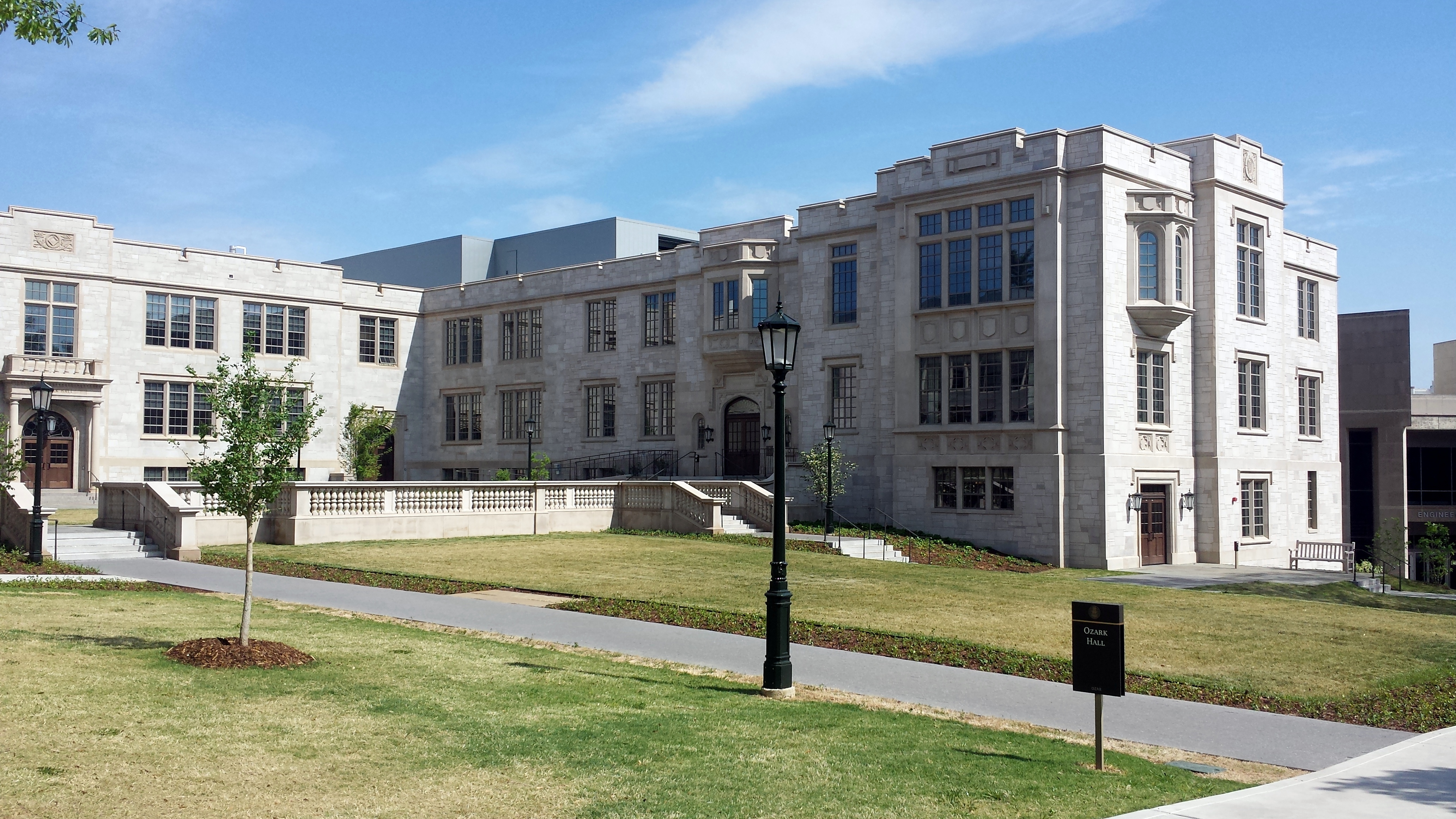 Addition to historic Ozark Hall